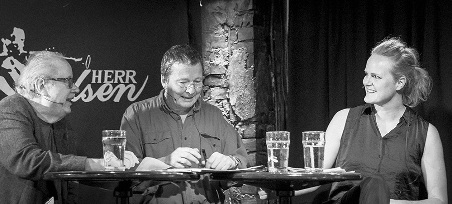 The recording of radio program "Studio Sokrates" at Herr Nielsen. The event took place on 10. September 2016 in Oslo.Lineup:Lars Nilsen (host)Knut Borge (contributor)Siv Dokmo (contributor)Per Husby Trio:Per Husby (piano)Trygve Seim (saxophone)Anne Lunde (vocal)